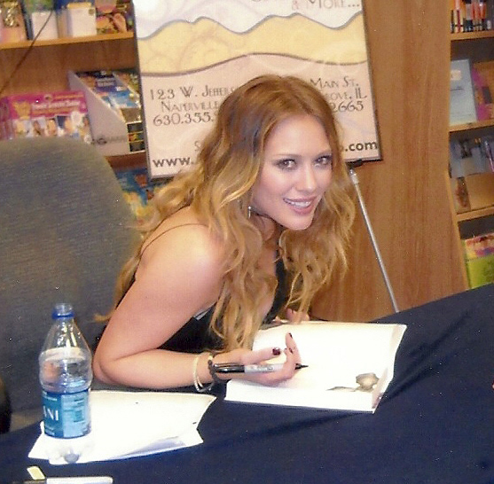 Hilary Duff signing her book 'Elixir' on October 2010